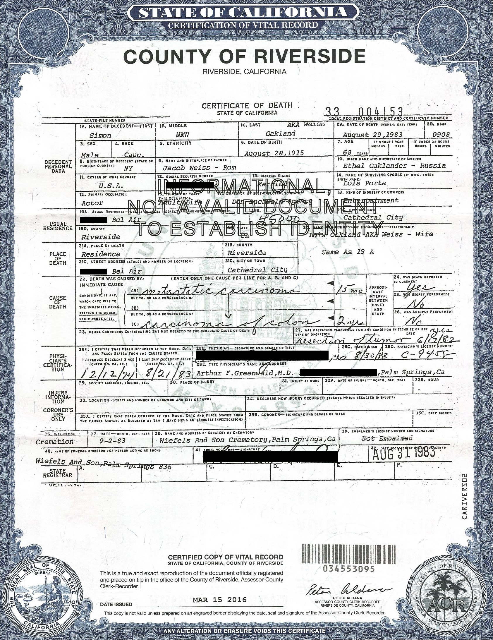 Death certificate of U.S. actor Simon Oakland (1915-1983)